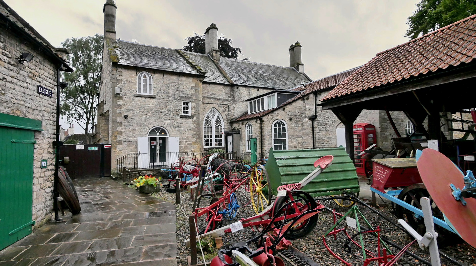 Beck Isle Museum, Pickering - inner court yard